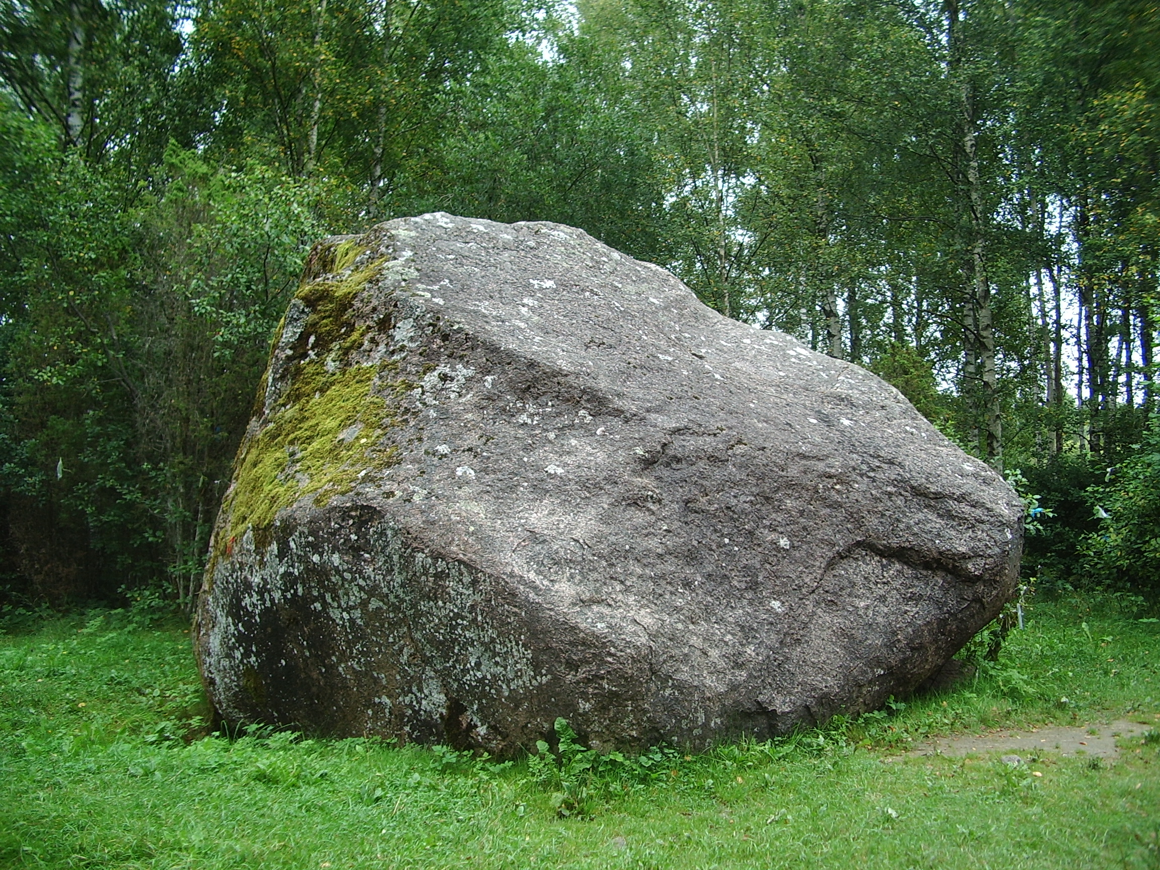 Piret's stone